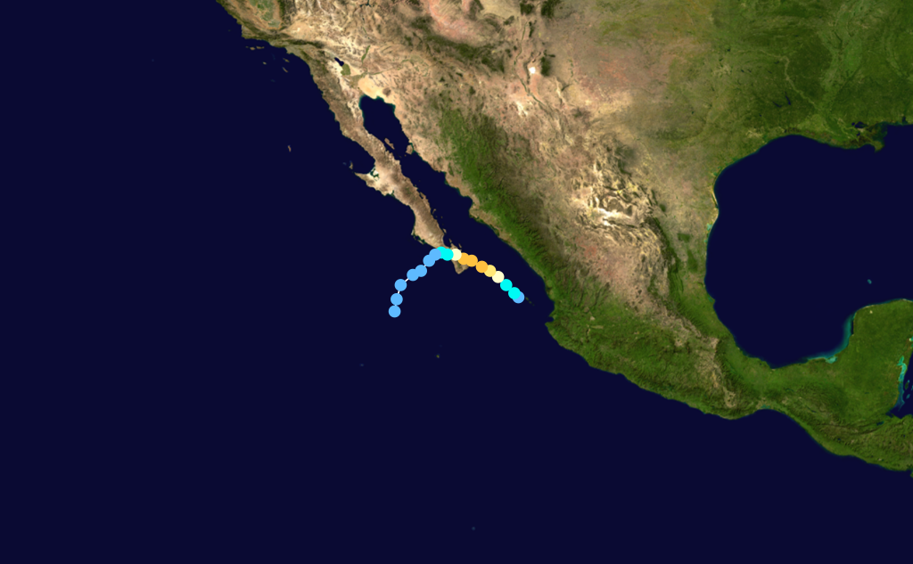 Hurricane Kiko (1989) track. Uses the color scheme from the Saffir-Simpson Hurricane Scale.